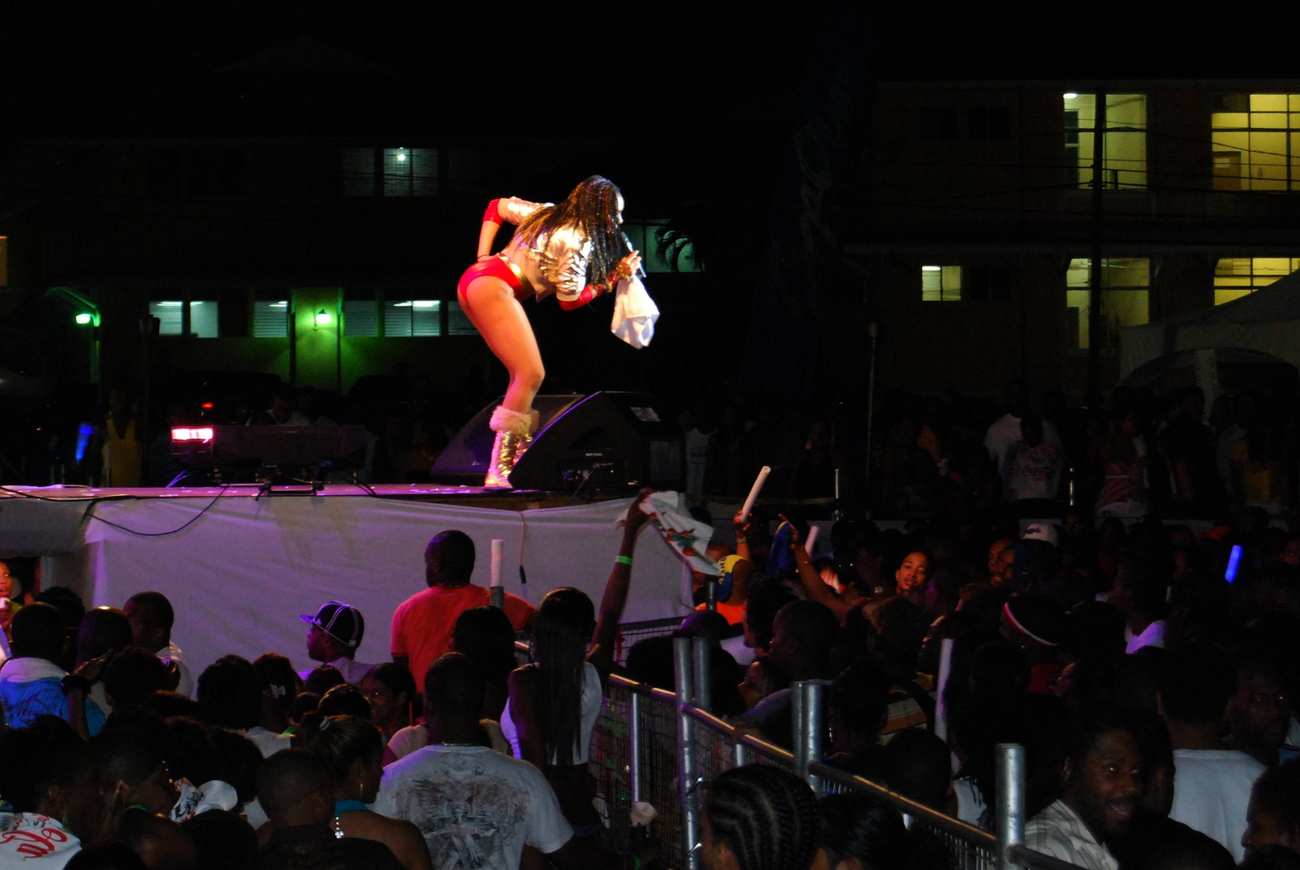 Destra Garcia performing at the UWI Splash at St. Augustine Campus in 2009.